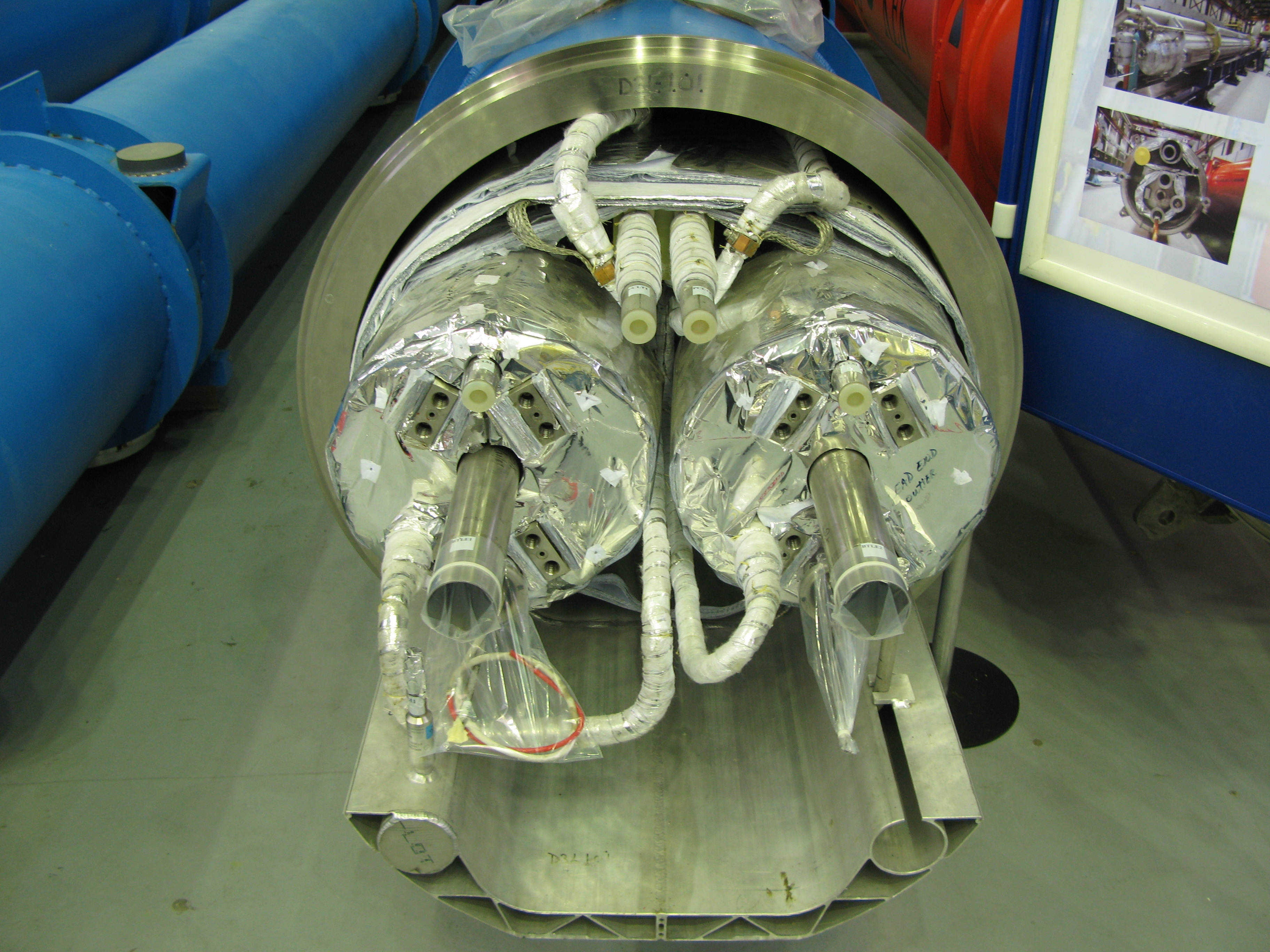 magnets of LHC